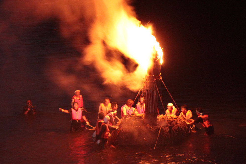 Kawakanjo is a unique event in Izunokuni, Shizuoka Prefecture, Japan.